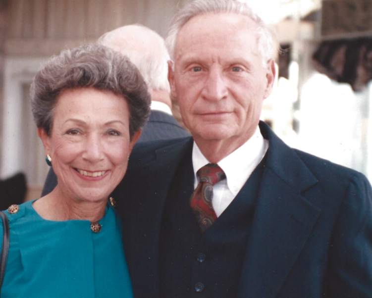 Harry and Mildred Dornbrand at a family gathering.